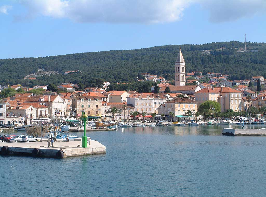 Supetar, Brac island, Croatia. K. Korlevic